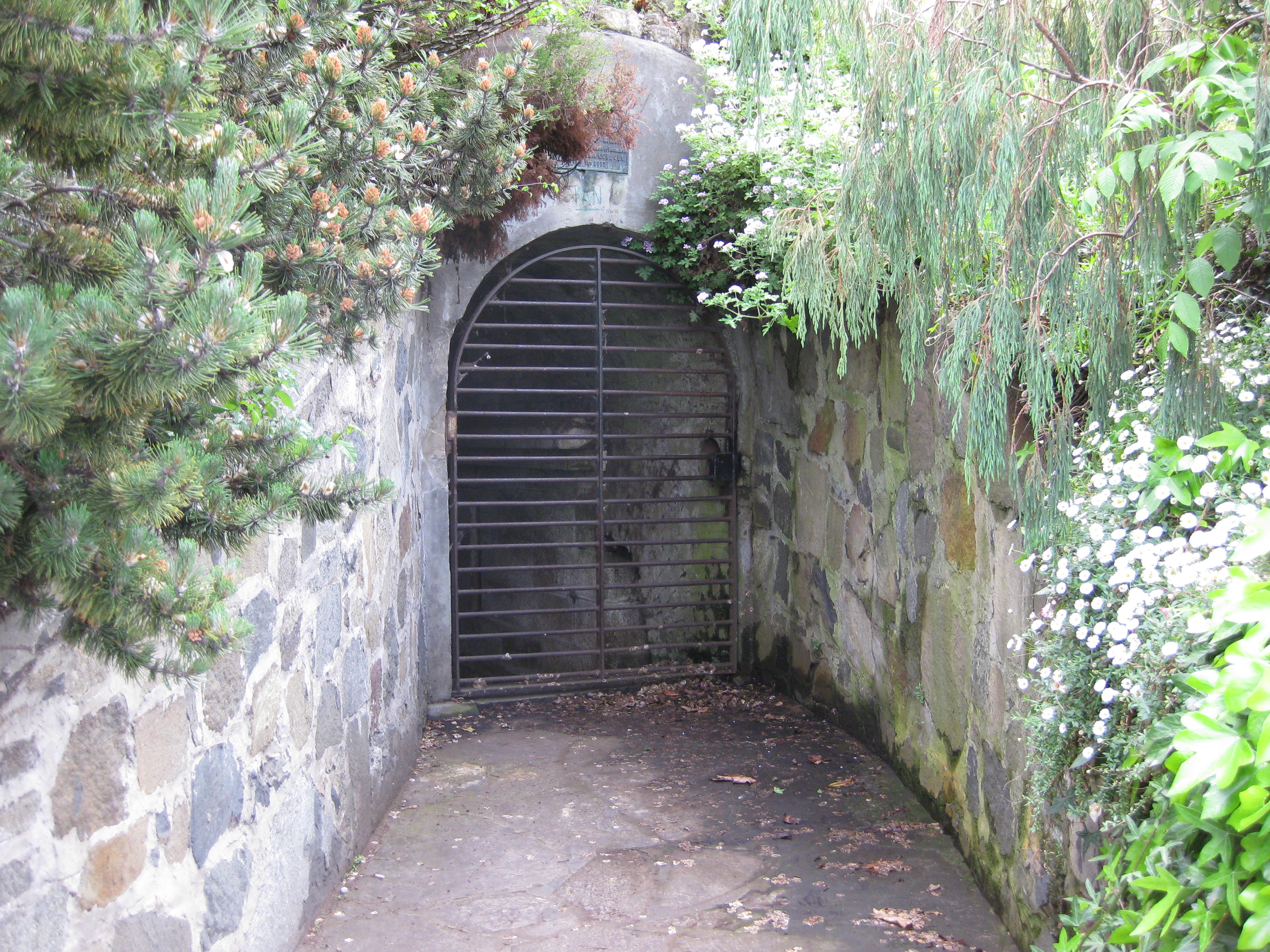 The tunnel to the magazine of the former Prince of Wales Battery in Hobart